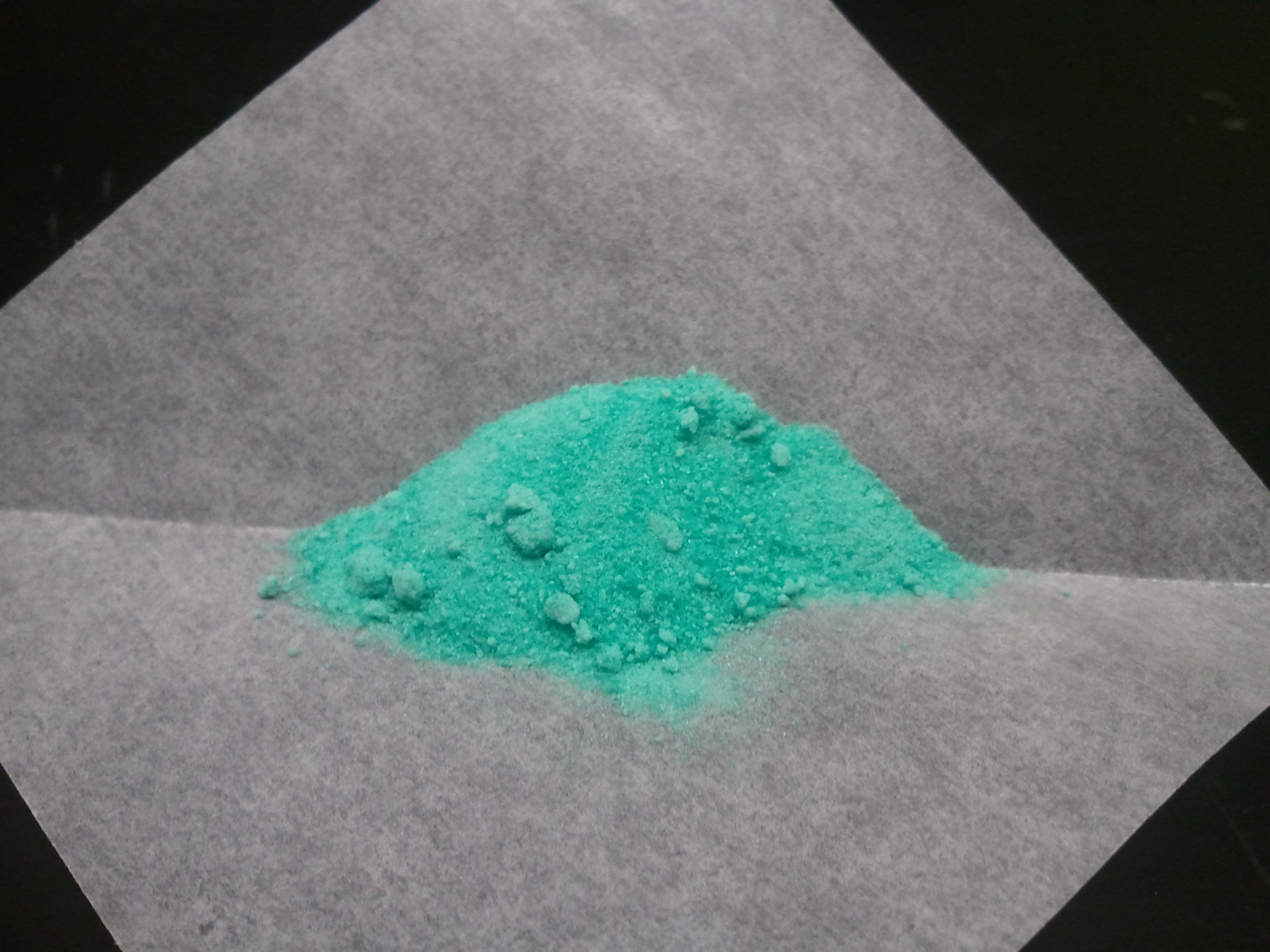 Nickel(II) acetate tetrahydrate powder